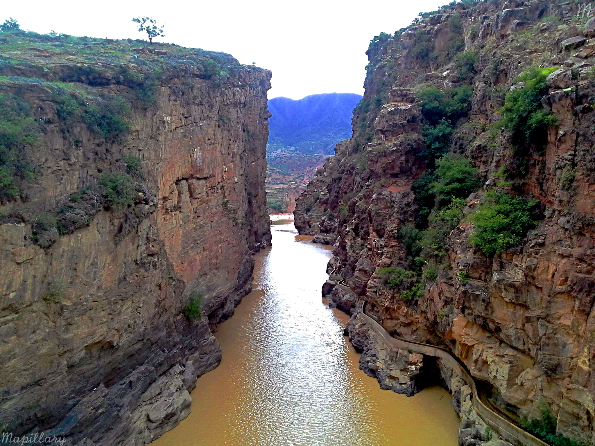 View of the canyon Angostura over the bridge that crosses the Camacho River in the region of Tarija, Bolivia.